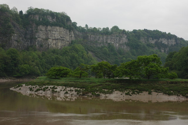 Trees on the banks of the River Wye Viewed from near the ruins St James's church the trees are on a spur of land on the sharp bend in the River Wye. The dramatic cliffs of Wintour's Leap popular with climbers are seen in the background.